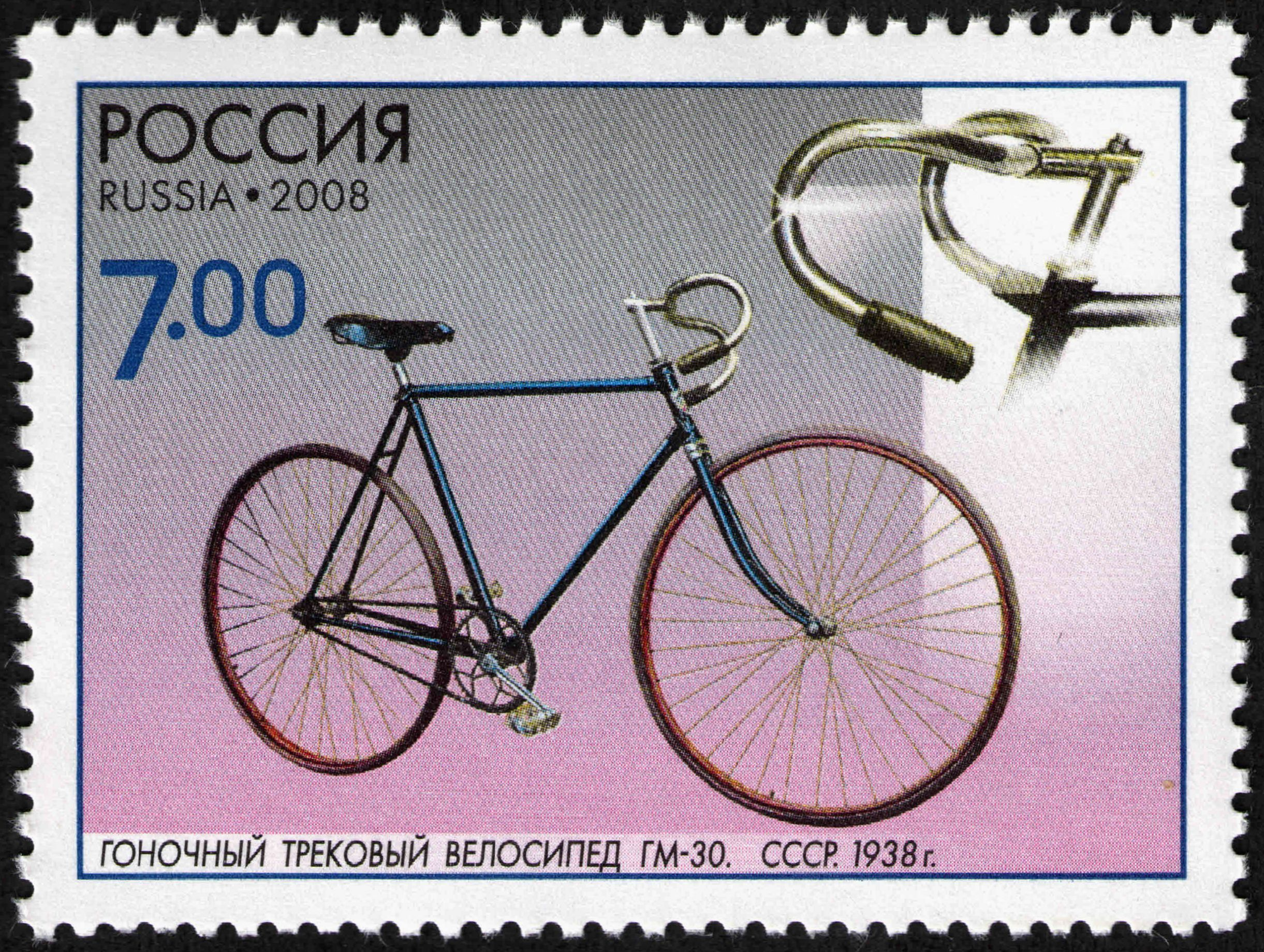 The monuments of science and technique. Bicycles.The track bicycle GM-30 ( ГМ-30). USSR. 1938. Moscow Bicycle Factory. The stamp of Russia, 7.00 Rubles, 11 December 2008, PTC Marka Catalogue No 1287, Michel No 1519. Coated paper. Offset printing. Perforation: comb 12:11½. Size of the stamp: 50×37 mm. Print run: 800,000.